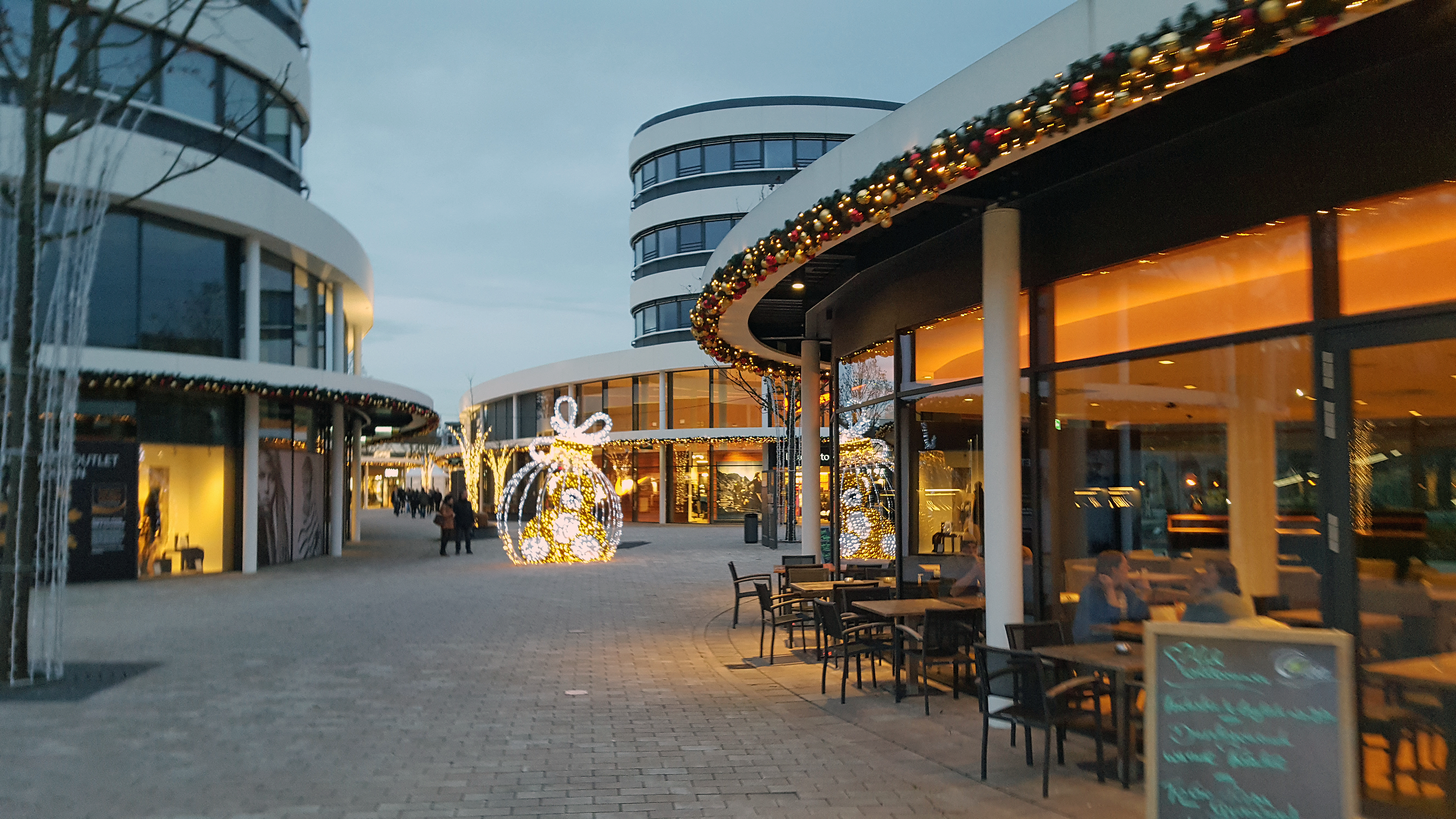 Fashion-Outlet-Center in Montabaur